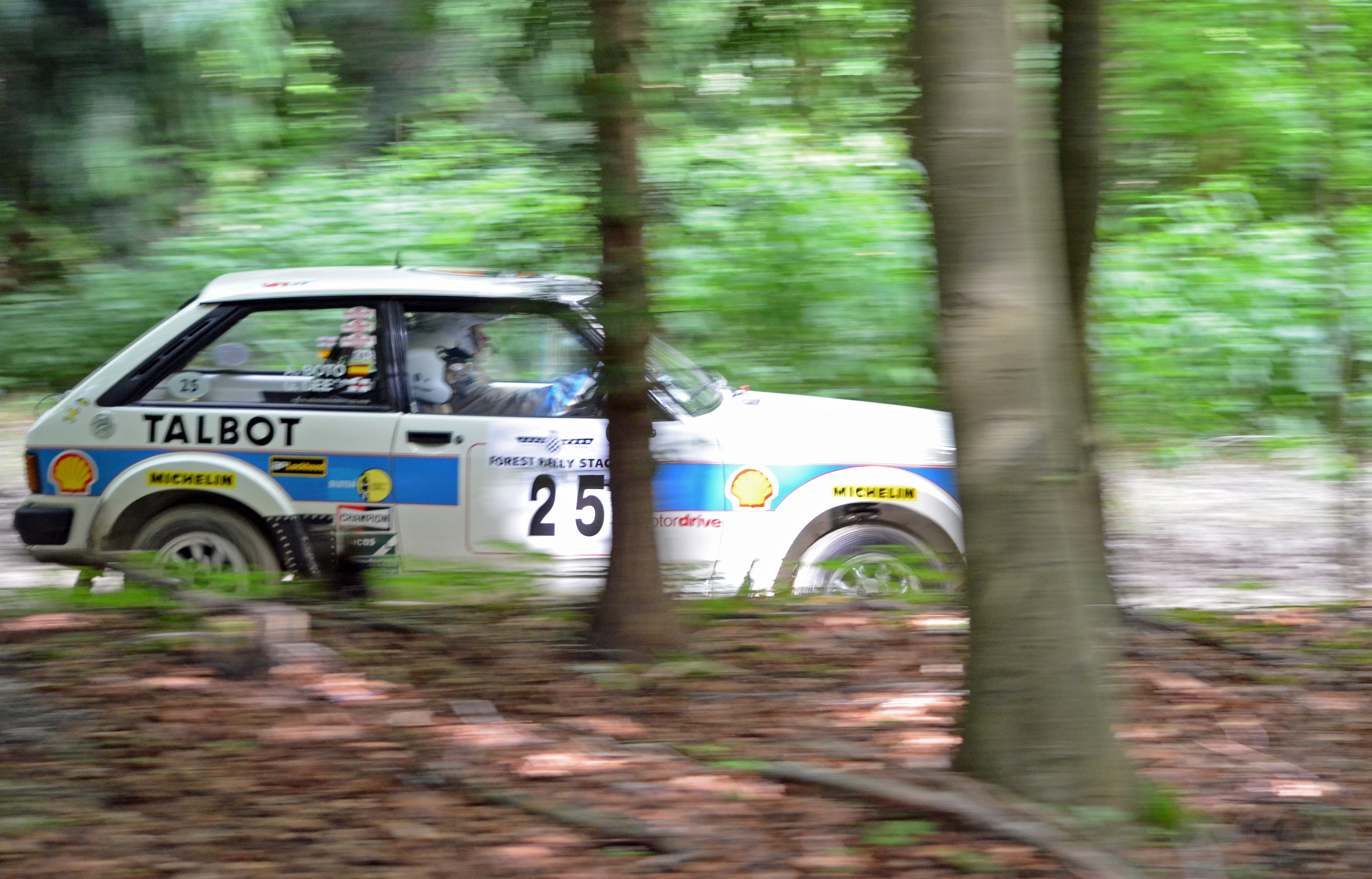 Goodwood Festival of Speed 2016